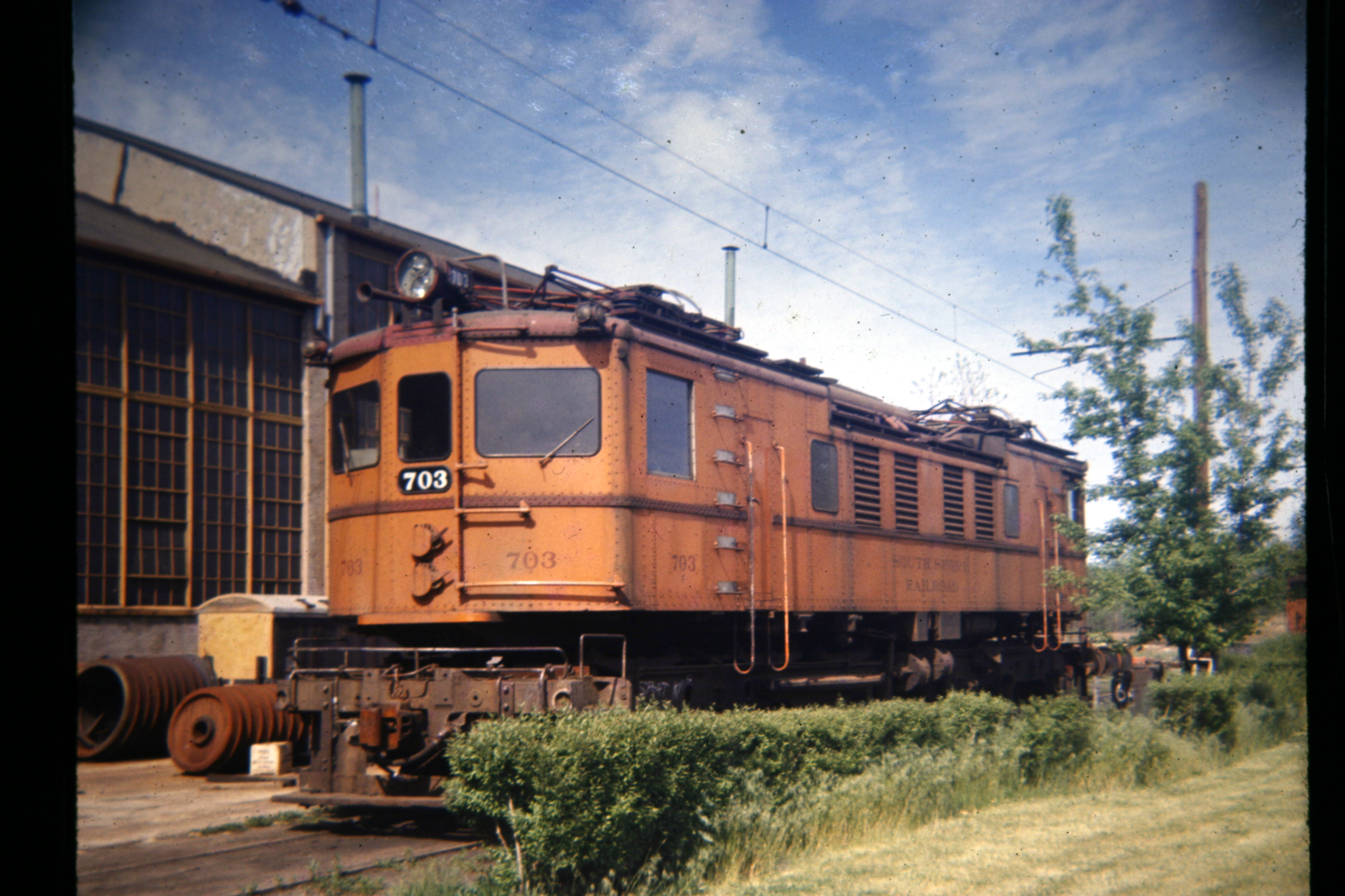 A South Shore Line engine at the Michigan City Shops in 1966.